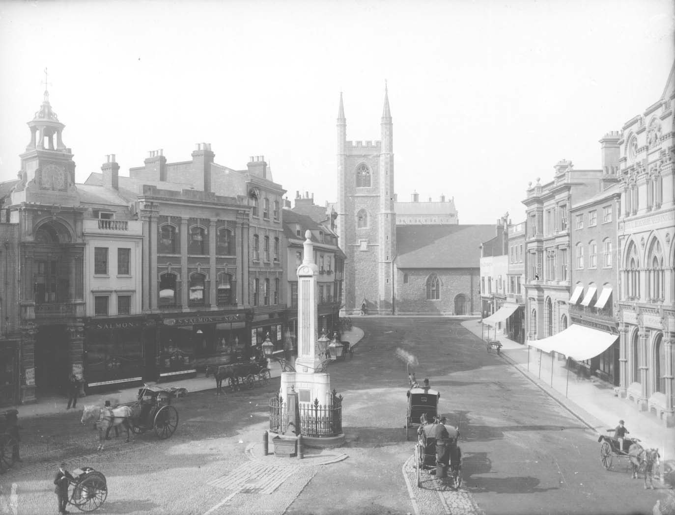 Market Place, Reading, looking northwards to St. Laurence's Church, c. 1875. On the west side, the entrance to the Corn Exchange with clock above; Nos. 34 and 33 (Salmon and Son, tea and coffee merchants); No. 32; Nos. 31 and 30; No. 29 (Arthur S. Cooper, wine and spirit merchant). On the east side, Nos. 19 and 18 (Elephant Hotel); No. 17 (Frank Cooksey, estate agent); Nos. 16, 15, 14 and 13 (London and County Bank); No. 12 (Morris and Davis, tailors); Nos. 11 and 9 (Sutton and Sons, seedsmen); and No. 7 ("Reading Mercury" offices). Two cabs wait by the Simeon Obelisk, which has a pump and trough in front of it. 1870-1879 glass negative by H. W. Taunt, Box 22 No. 3665.